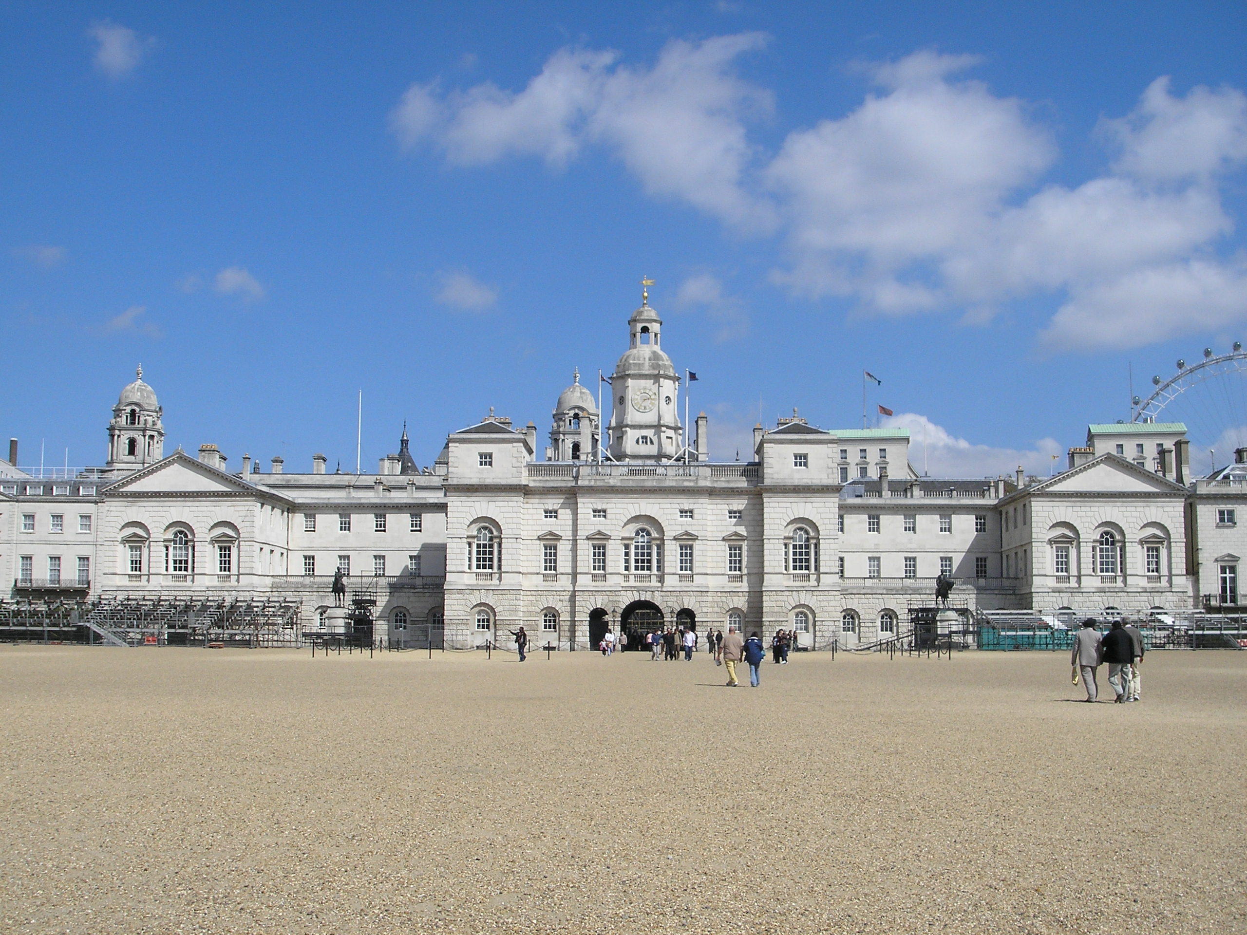 Horse Guards Parade building in London